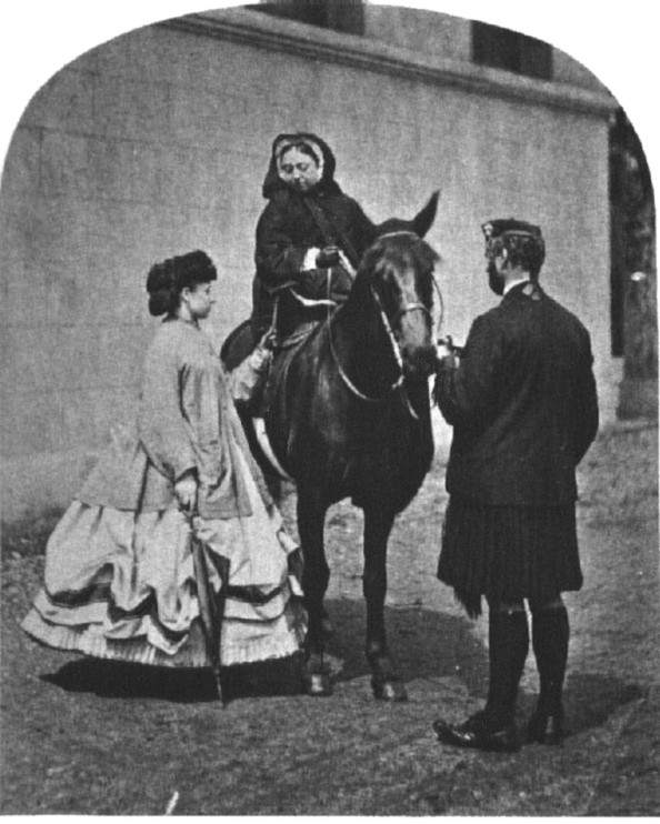 Queen Victoria, Princess Louise and her outdoor servant John Brown